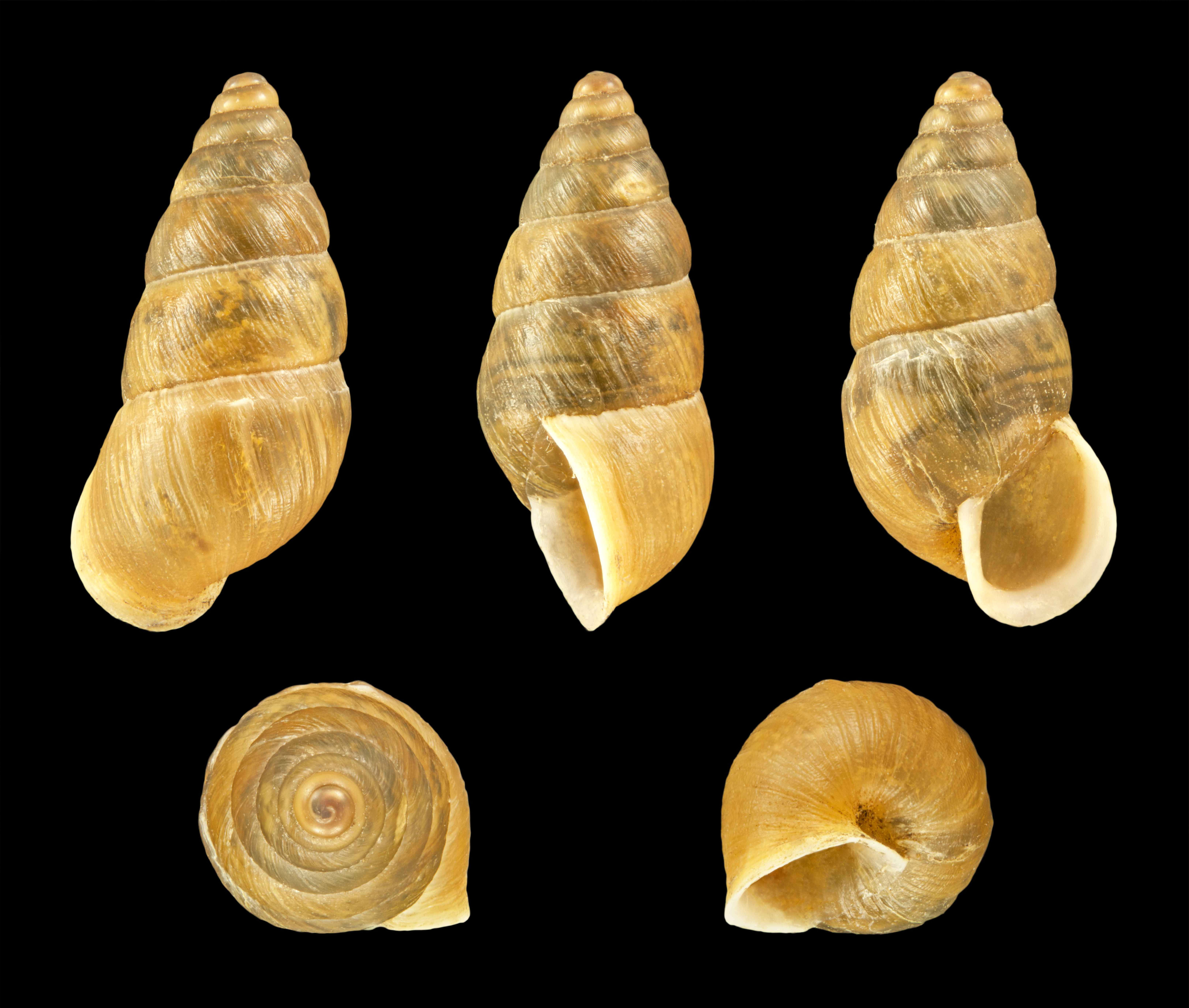 Ena montana (Draparnaud, 1801), Mountain Ena; Length 1.4 cm;Originatig from Mahlstetten, Baden-Württemberg, Germany; Shell of own collection, therefore not geocoded.